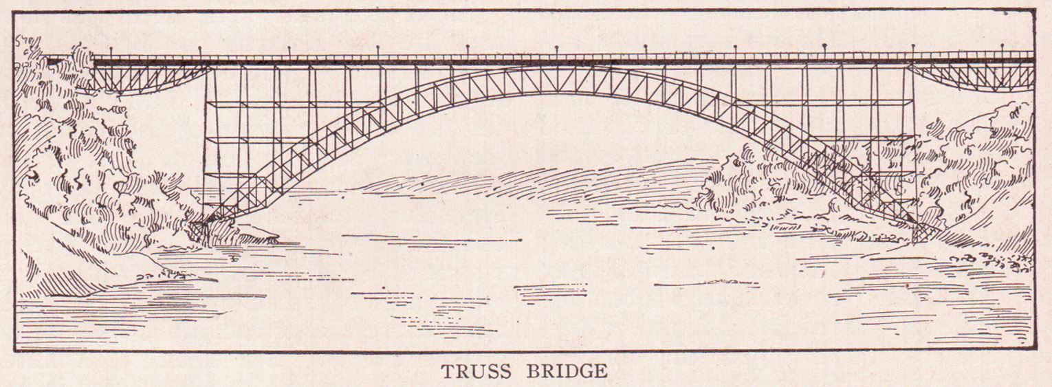 This illustration is from "The Home and School Reference Work, Volume I" by The Home and School Education Society, H. M. Dixon, President and Managing Editor. The book was published in 1917 by The Home and School Education Society. This drawing of a Truss Bridge is from page 382. Flickr data on 2011-08-23: Tags: 1917, book, The Home and School Reference Work, copyright free, creative commons, flickr, free, freebie License: CC BY 2.0 User: perpetualplum Sue Clark